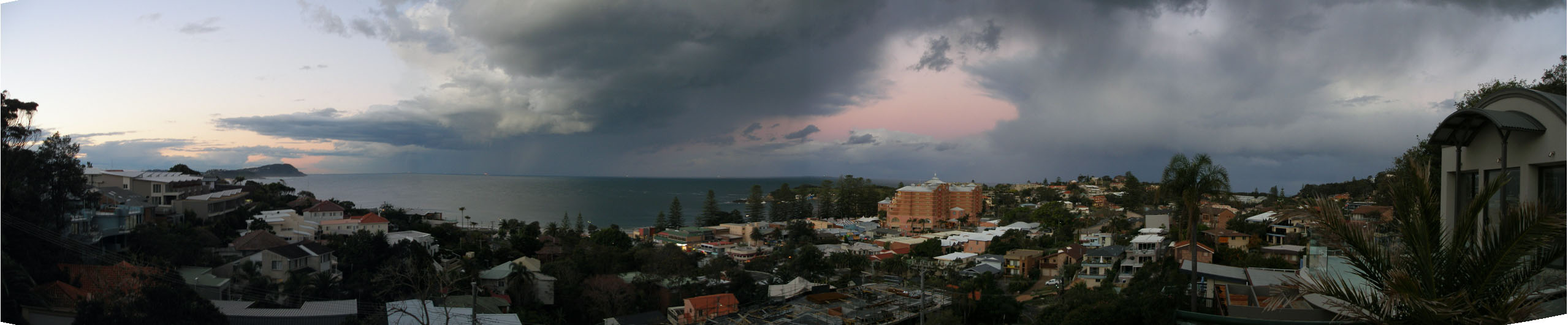 D. Lovatt, This panorama photo was taken by myself on 21/06/07